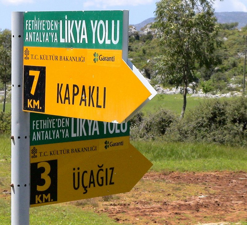 Lycian Way